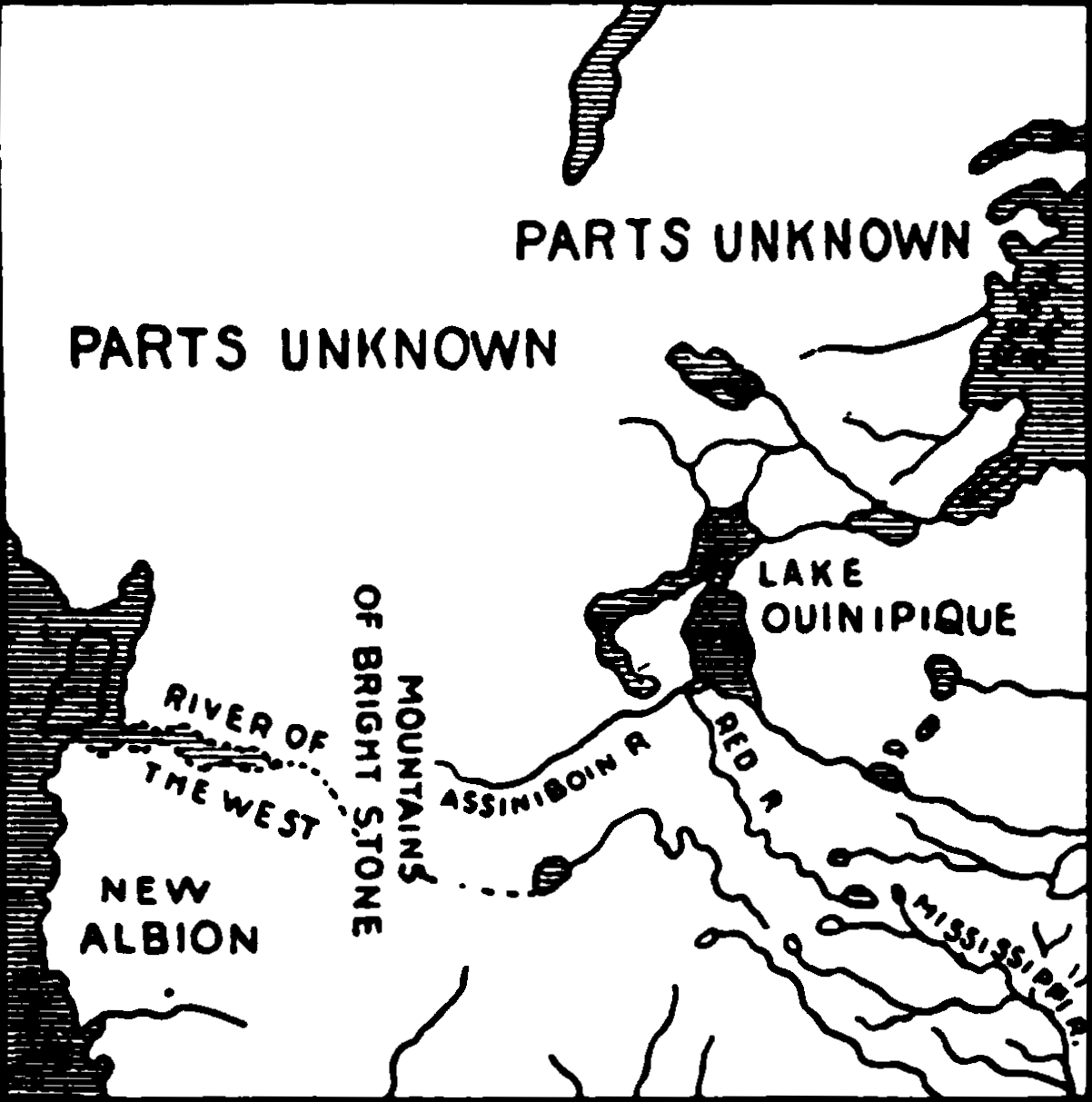 Map of Western North America in 1778